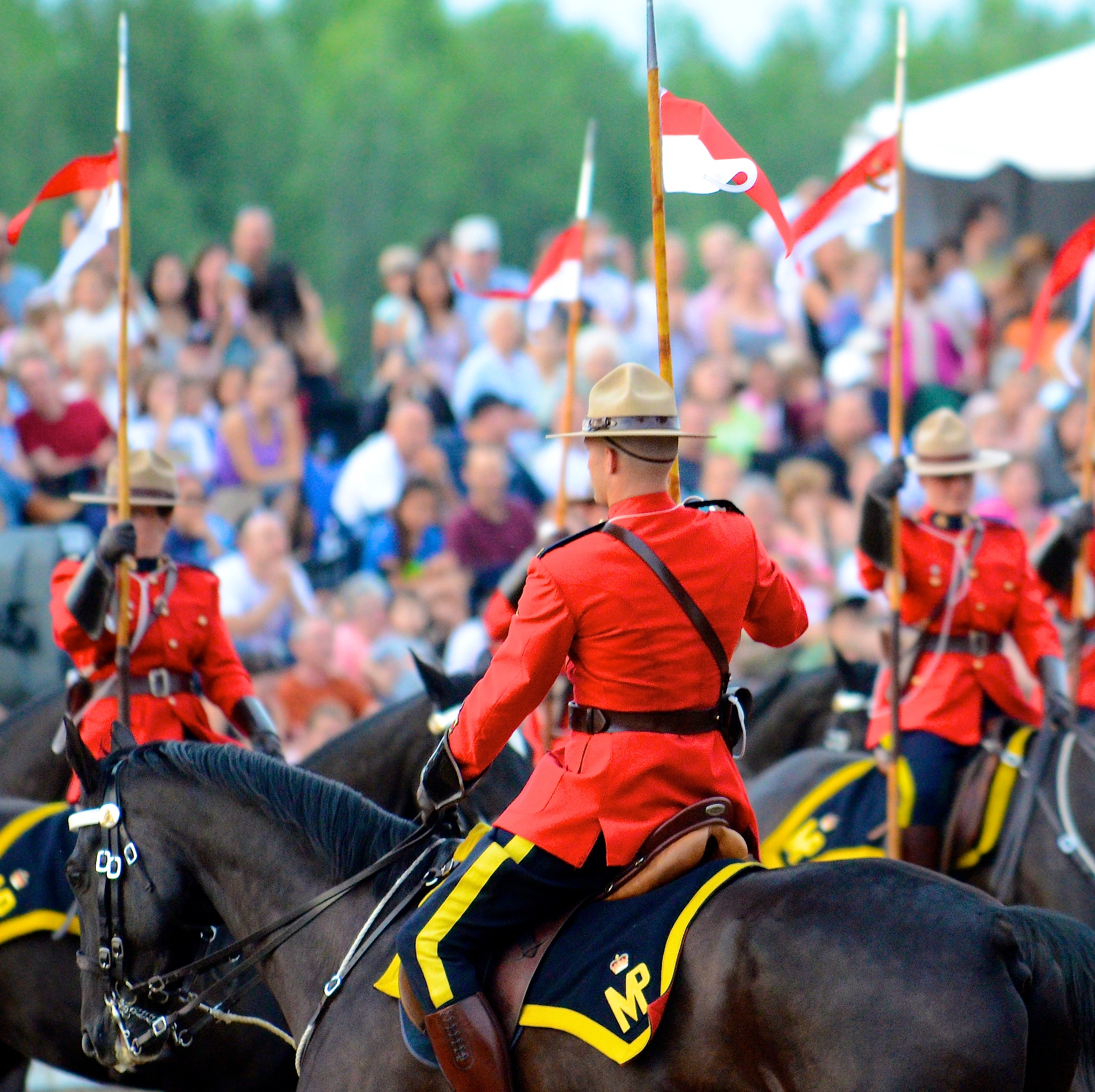 The annual sunset ceremony by the Royal Canadian Mounted Police (RCMP) is held at the stables for the RCMP in Ottawa, Ontario, Canada. In addition to the Musical Ride there were skydivers from the Canadian Army's SKYHAWKS parachute demonstration team and pipes and drum bands from the RCMP and Ottawa Regional Police.